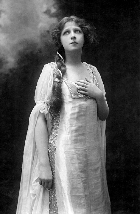 Photograph of actress Marie Lohr, posed as Ophelia in Hamlet Caption reads as follows:This young actress, whose Lady Teazle was loudly praised by the London critics, will be seen this season in America Sources identify this as a postcard image published by Raphael Tuck in its "Celebrities of the Stage" series (T1428), captioned "Miss Marie Löhr as Ophelia in Hamlet"